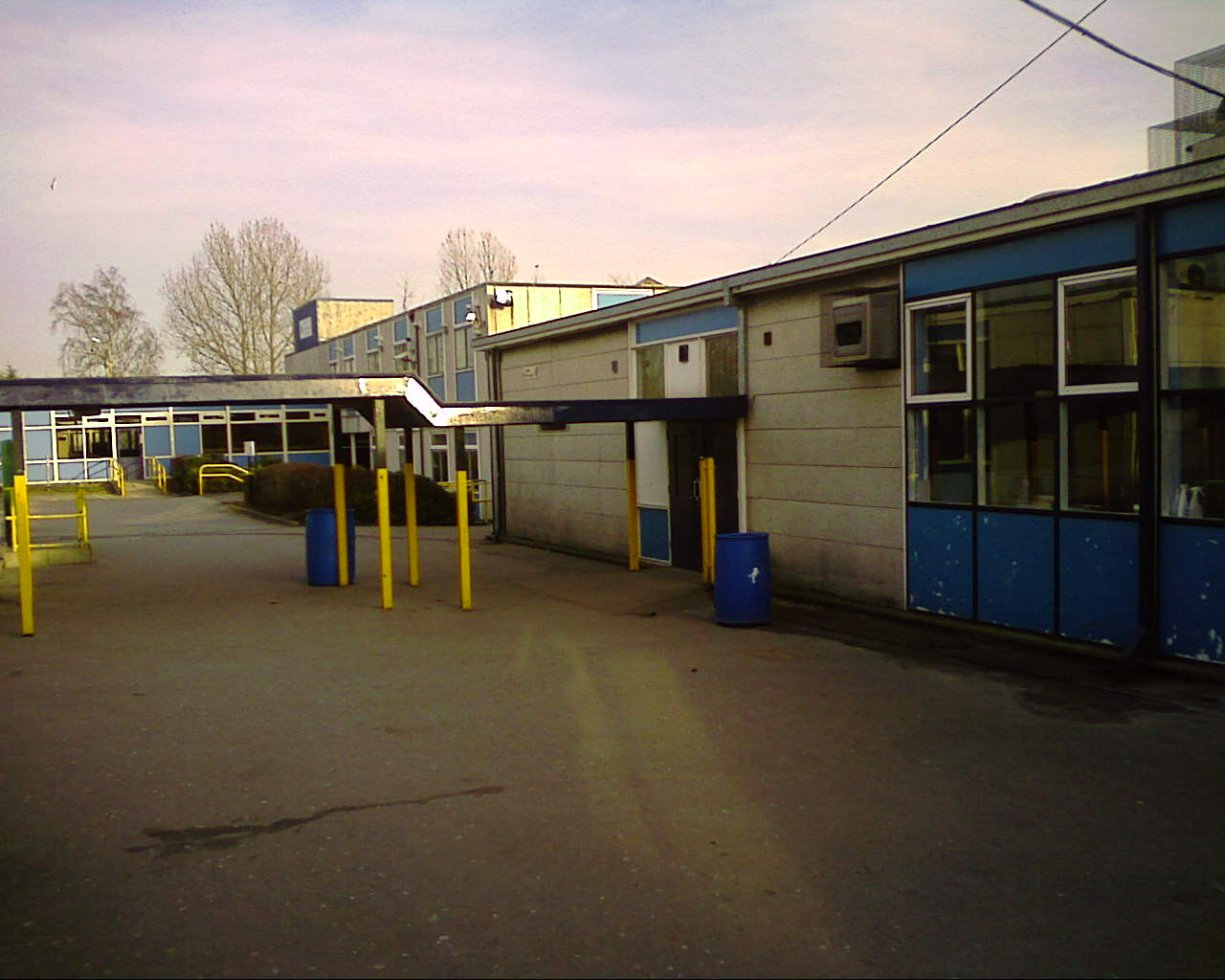 Garibaldi College near Mansfield